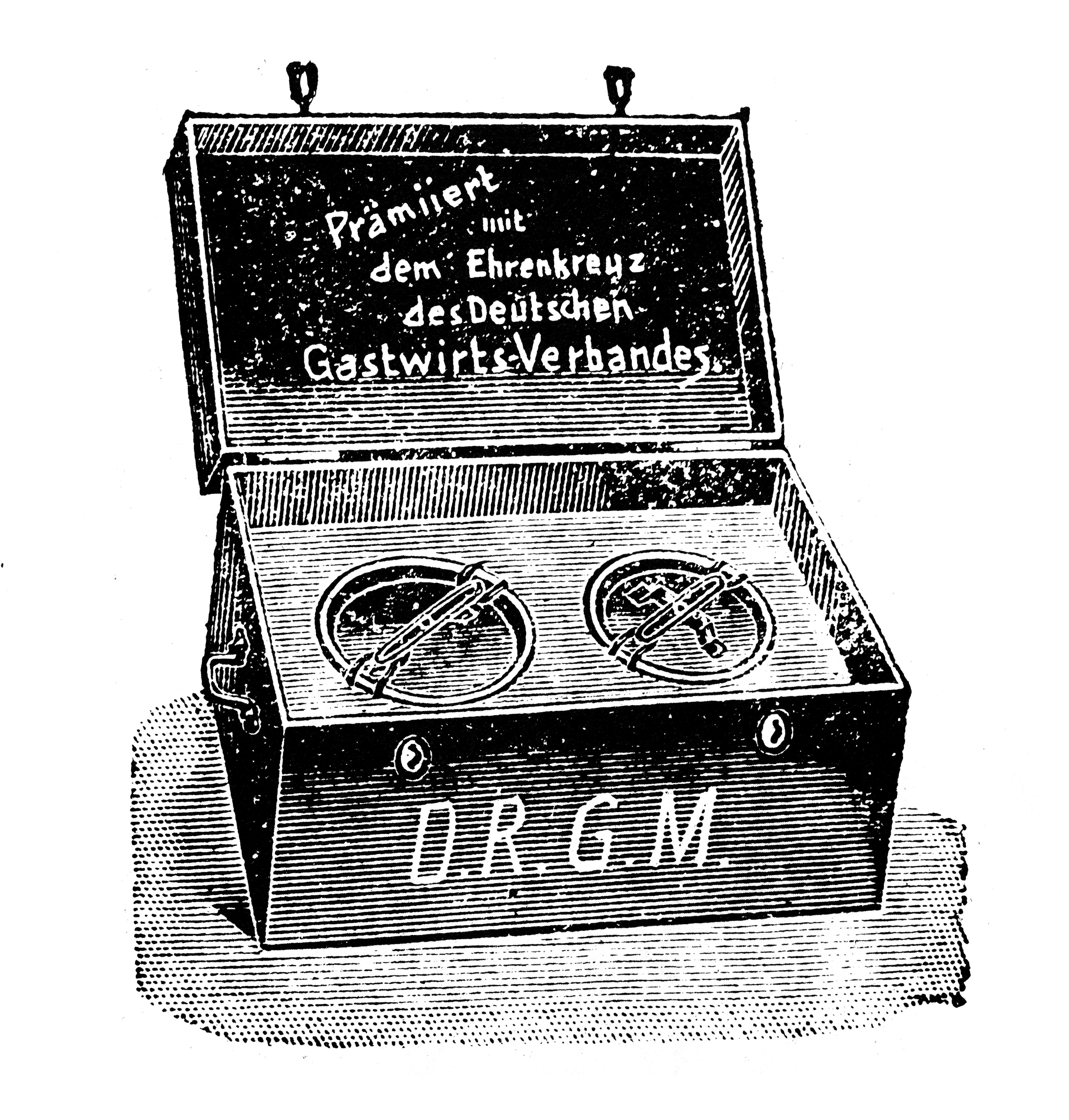 Haybox. Illustration from catalog from the end of the 19. century.